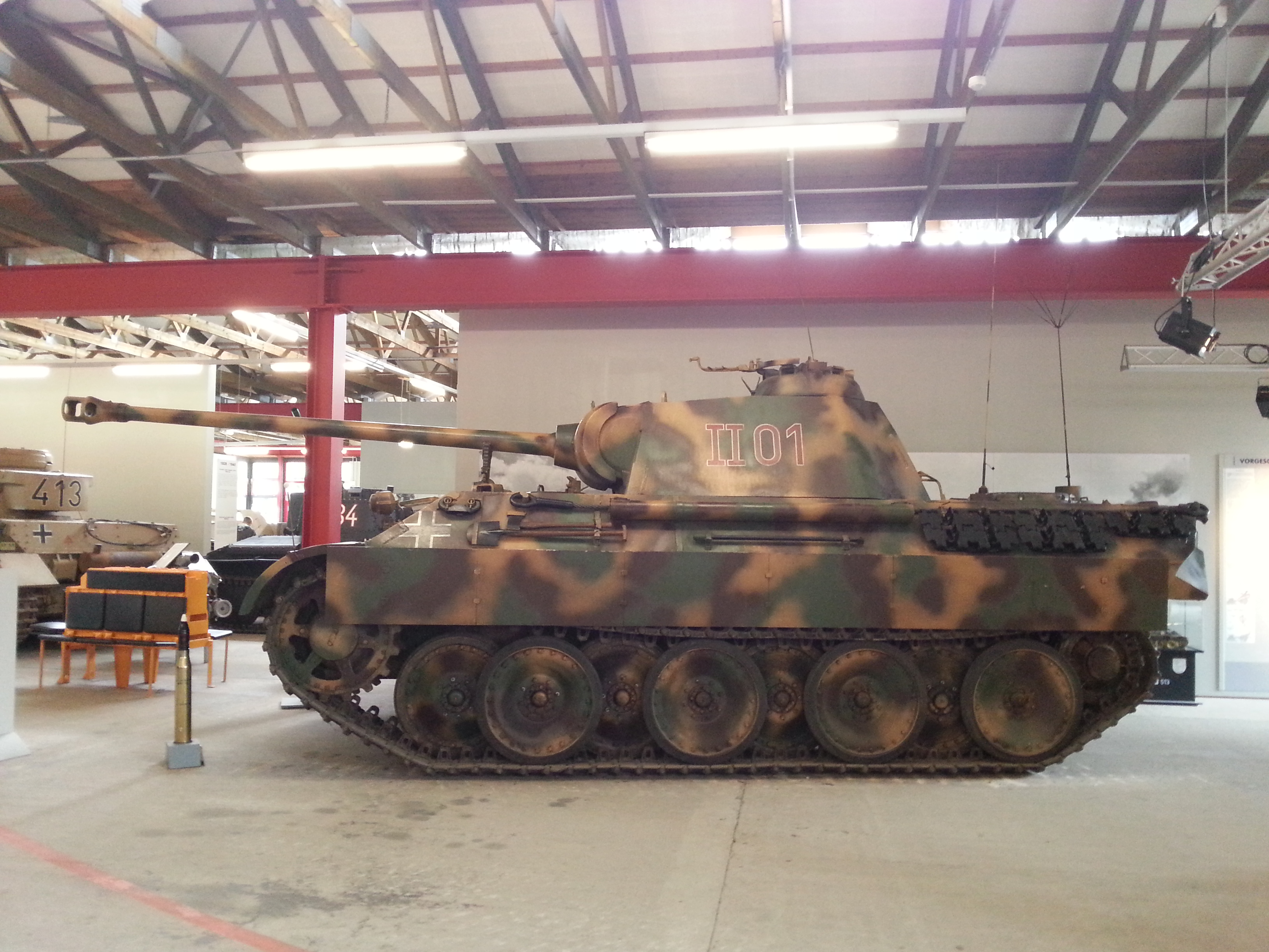 Panzer V Ausf A Panther, Deutsches Panzermuseum Munster